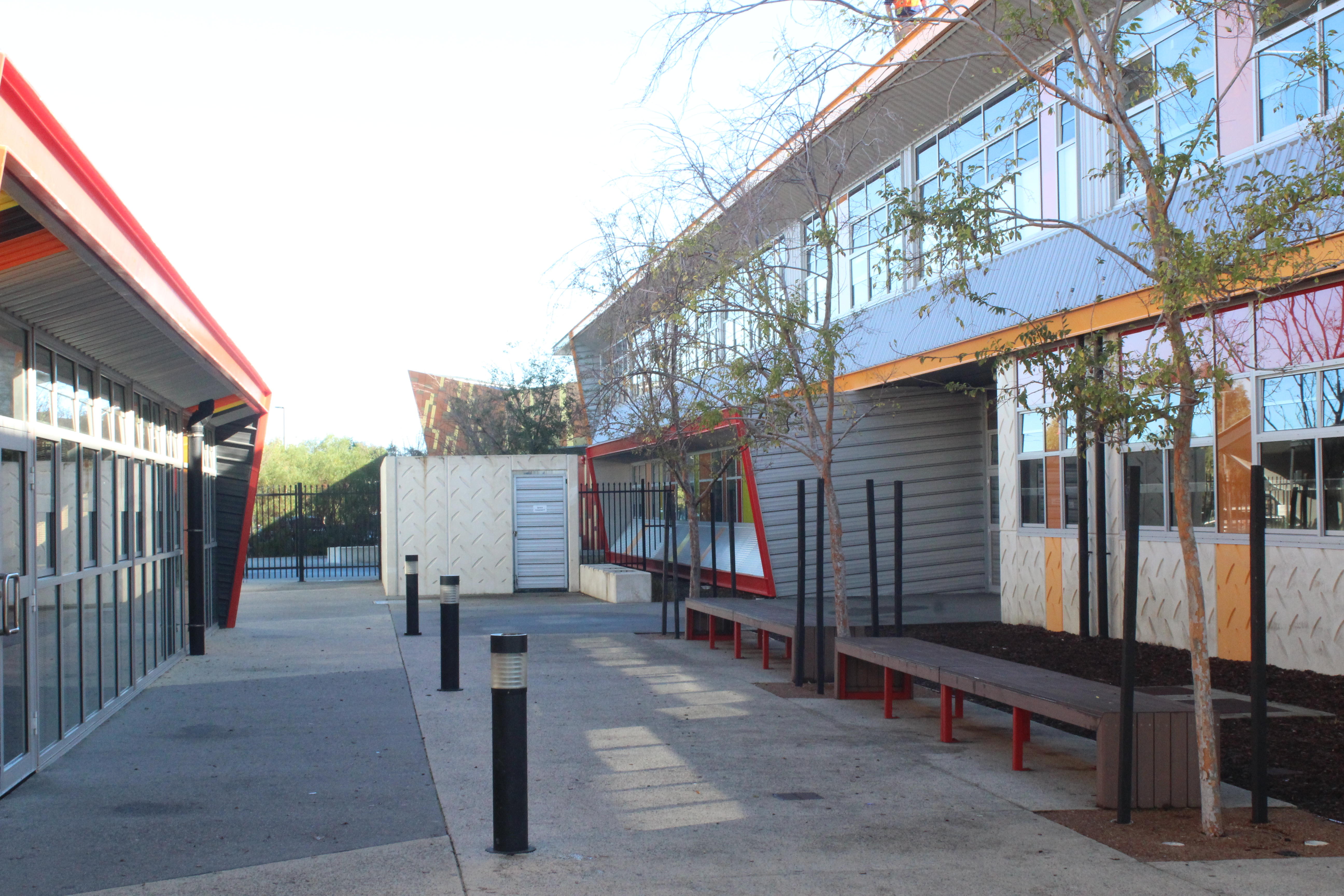 Baldivis Secondary college Arts Aft block Photo taken by Benedict Ybanez (User:Benedict2005) on 19/06/2020